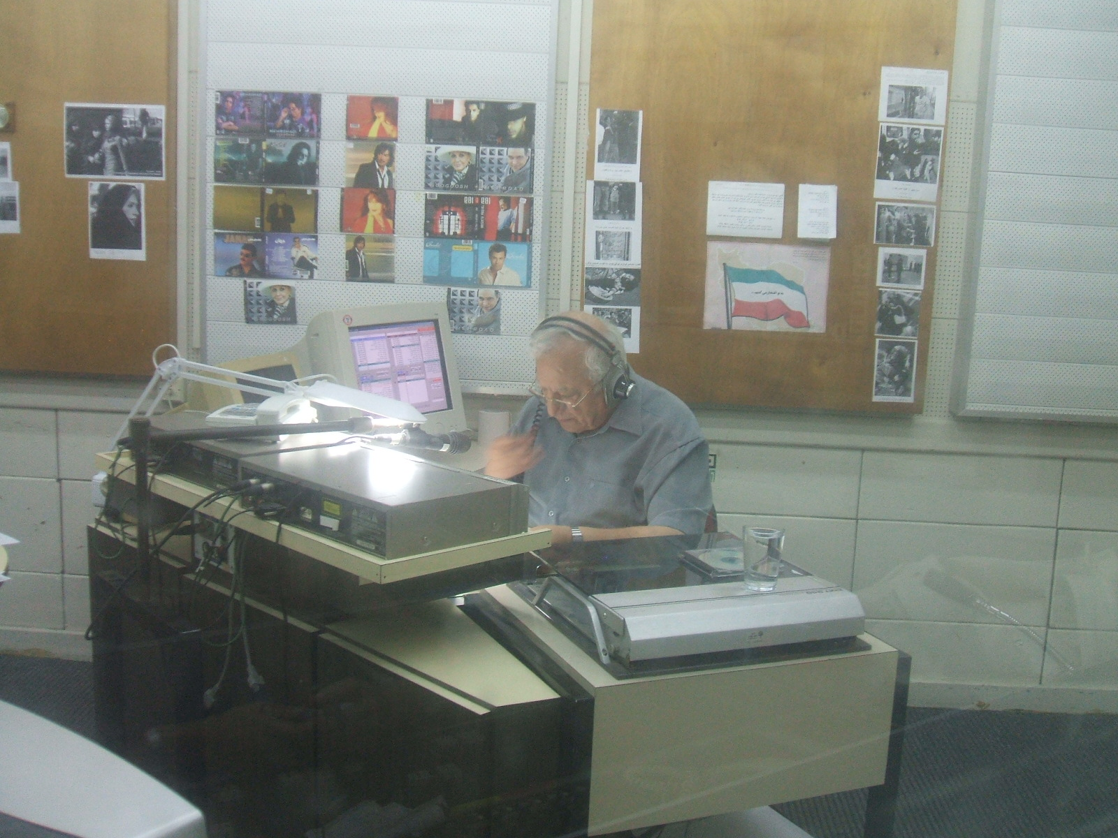 The studio of Israel radio Persian service, with broadcaster Menashe Amir